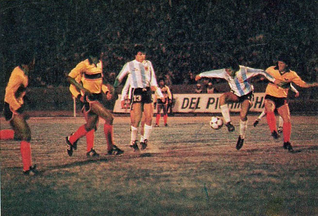 Jorge Burruchaga (right) shoting to goal sorrunded by Ecuatorian players Klinger and Narváez. Néstor Clausen (13) watches. The match ended 2-2.